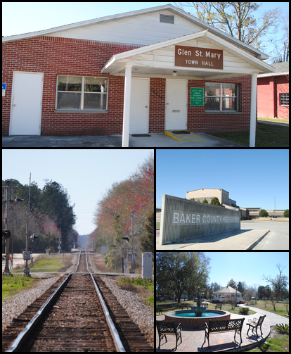 A collection of photos I took around Glen St. Mary